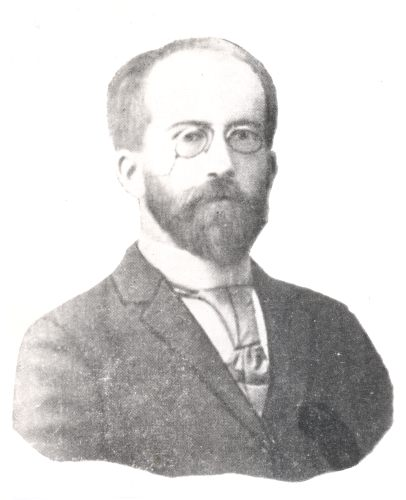 Władysław Rothert, Polish botanist